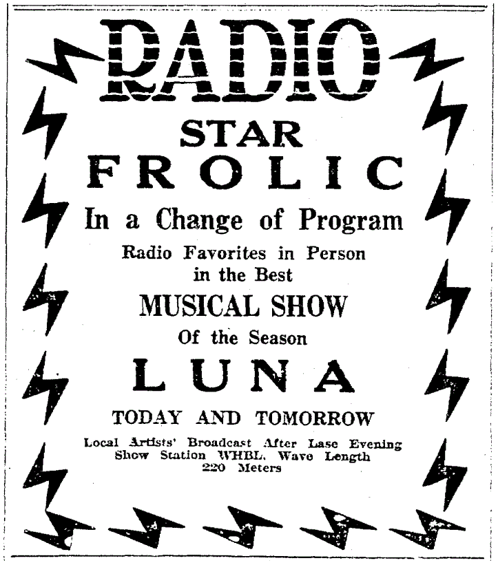 Promotional advertisement for the "Radio Star Frolic" program, presented at the Luna Theatre in Logansport, Indiana, and carried over local radio station WHBL